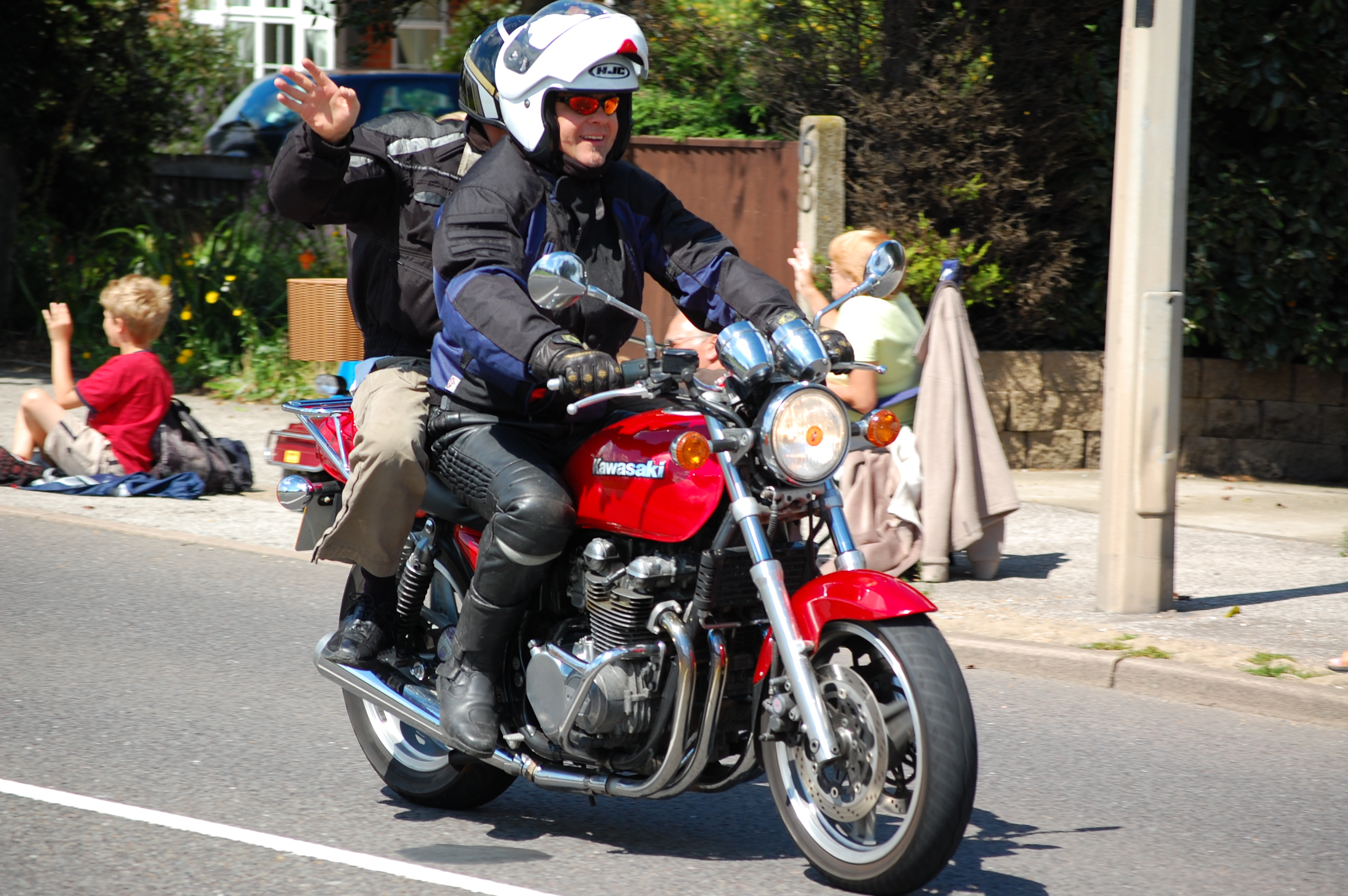 Eastern Lights Motorcycle Parade @ Lowestoft, Suffolk Kawasaki Zephyr750